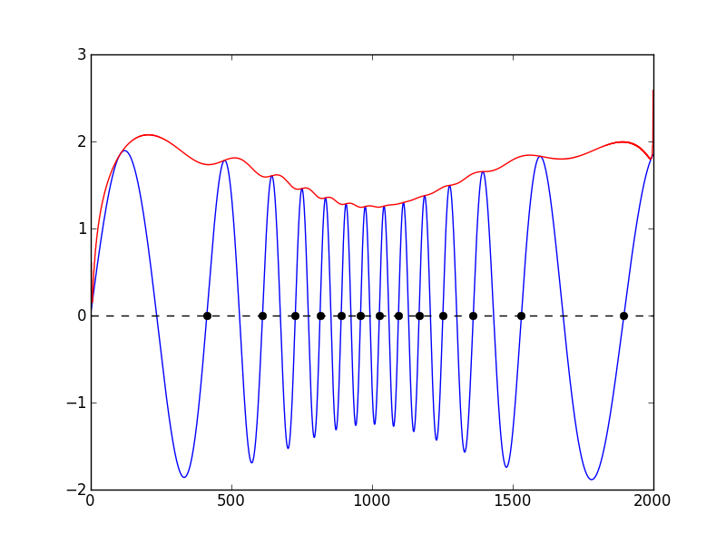 Graph showing how envelope (in red) and phase (black dots, for zero crossings) of a signal can be simply derived with the Hilbert Transform. The corresponding python code is: import numpy as np import scipy.signal import matplotlib.pyplot as mp import matplotlib.mlab as mm # Create a function for the instantaneous frequency ... dt = 0.01 t = np.arange(0,20,dt) f = (0.2 + 1.3*np.exp(-((t-10)/4)**2)) # ... and envelope env = 2-f/2 # Plot the corresponding function values df = 2*np.pi*f*dt fsum = np.cumsum(df) x = np.sin(fsum)*env # Using the Hilbert transform, find the envelope and zero crossings envelope = abs(scipy.signal.hilbert(x)) phase = np.angle(scipy.signal.hilbert(x)) zeroCrossing = mm.find(np.diff(np.sign(np.cos(phase)))==2) # Plot the results mp.plot(x) mp.hold('on') mp.plot(envelope, 'r') mp.plot((0, 2000), (0,0), 'k--') mp.plot(zeroCrossing, np.zeros(zeroCrossing.size), 'ko') mp.ylim((-2, 2.2)) mp.savefig('hilbert.eps') mp.show